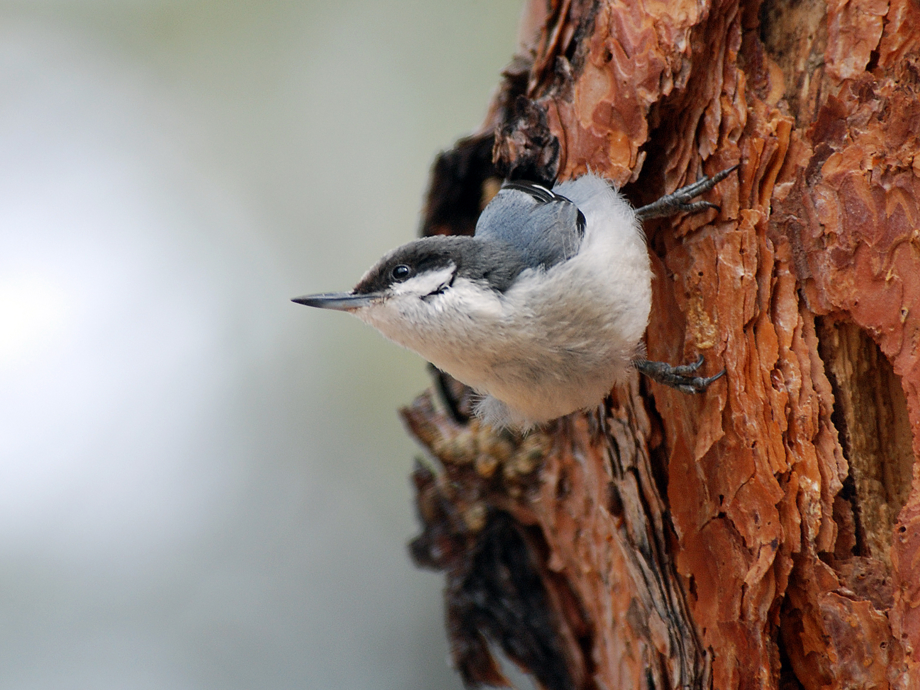 Sitta pygmaea, Main Loop Trail, Bandelier National Monument, New Mexico, USA.